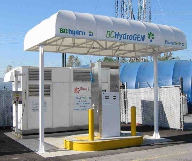 Hydrogen_station_Vancouver._BC.